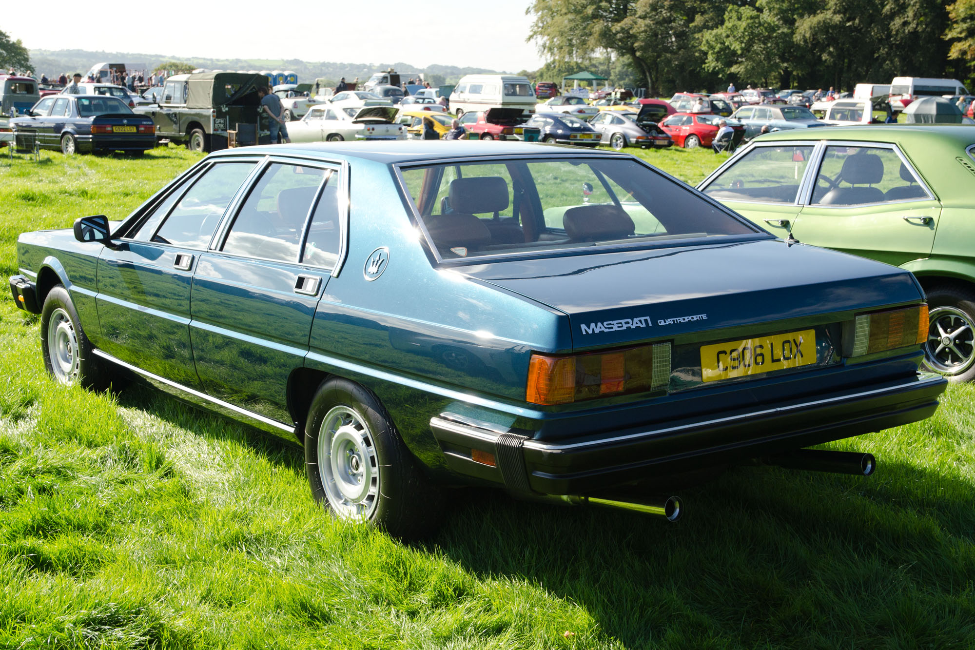 Hoghton Tower Classic Car Show 07/09/2014